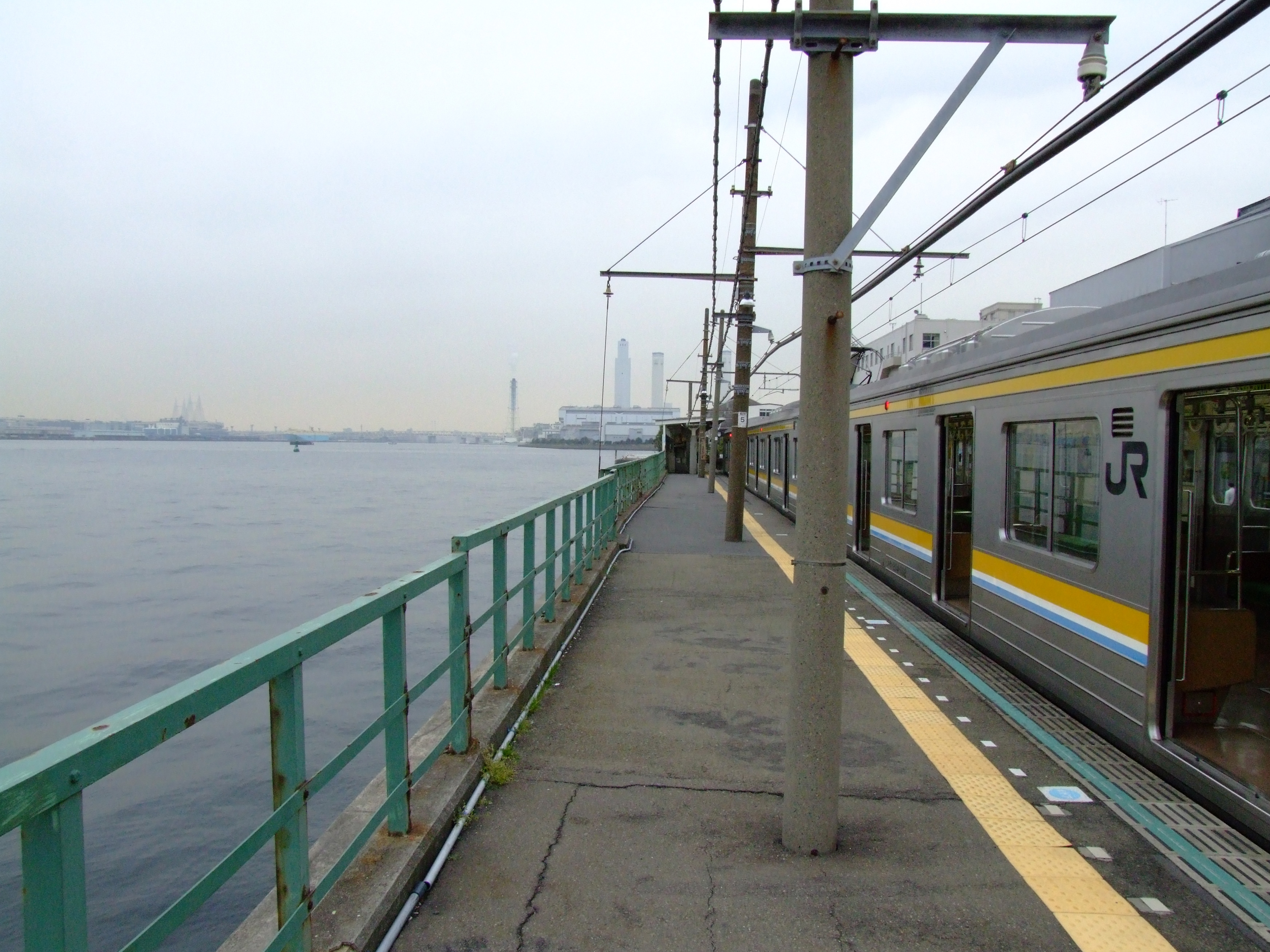 The platform at Umi-Shibaura Station